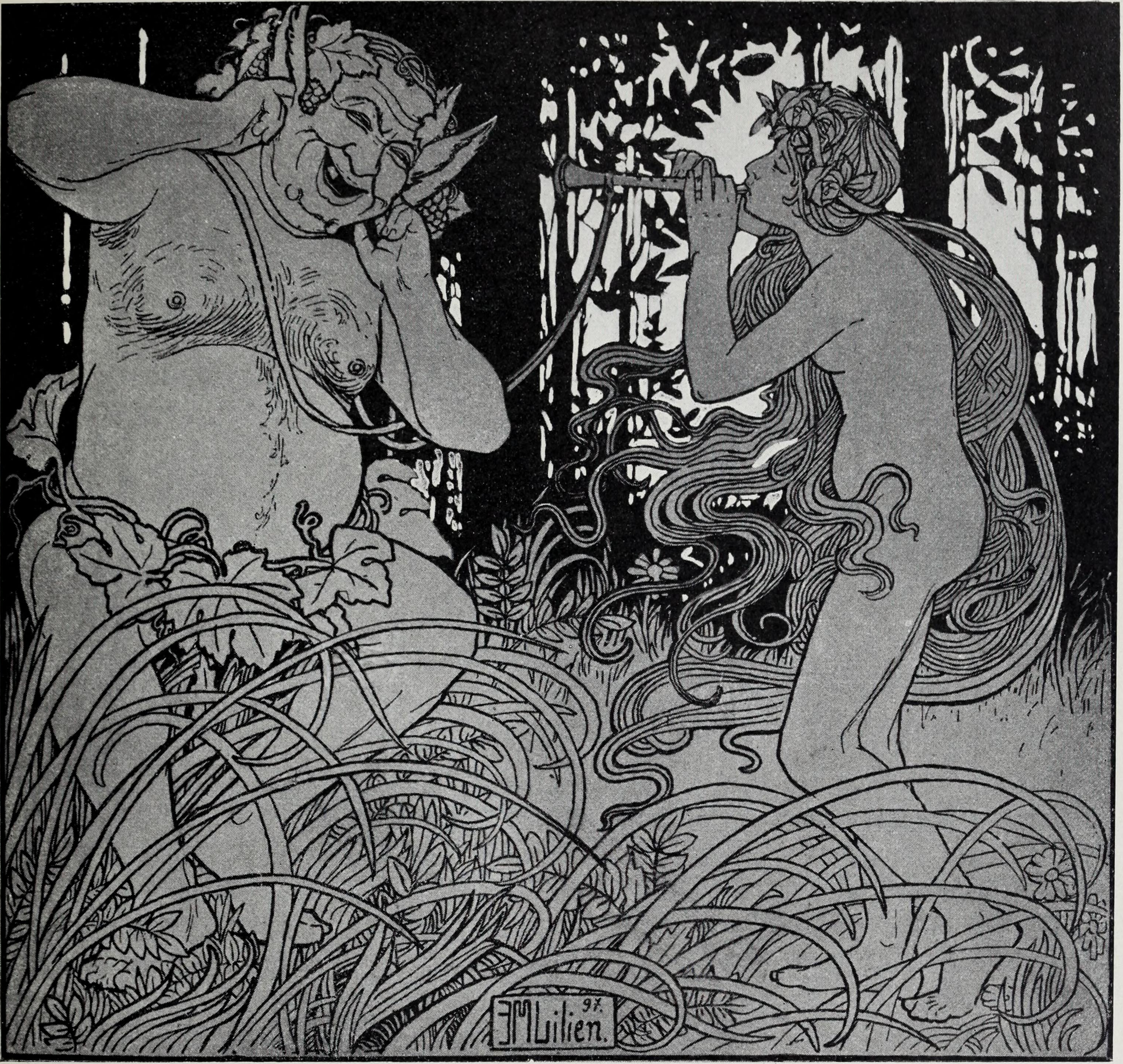 The magic flute.